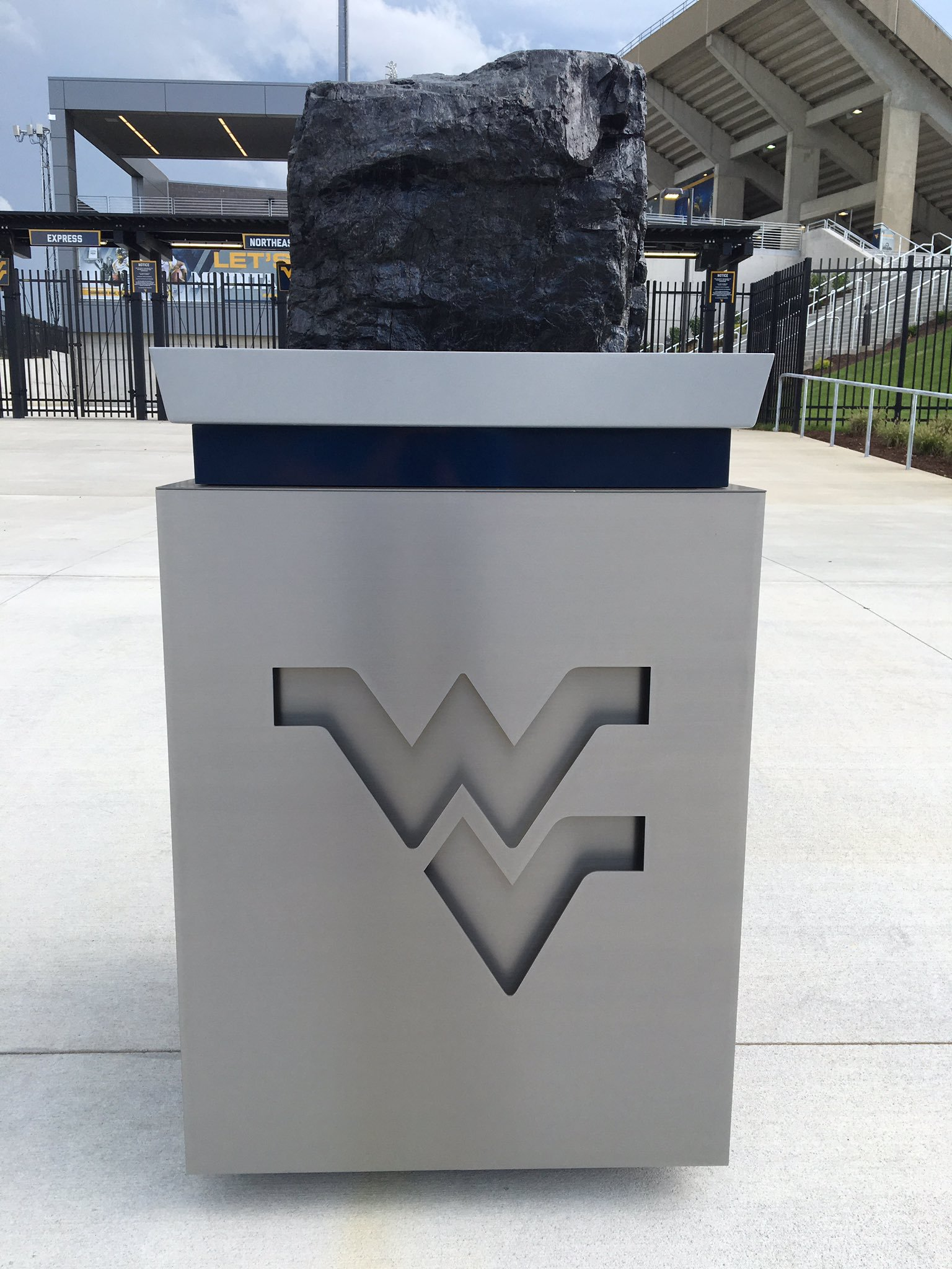 The block of coal from the Upper Big Branch mine disaster was incorporated into the northeast gate renovations as a part of the "Mountaineer Mantrip" route in 2016.